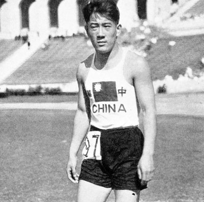 First olympic representative of China